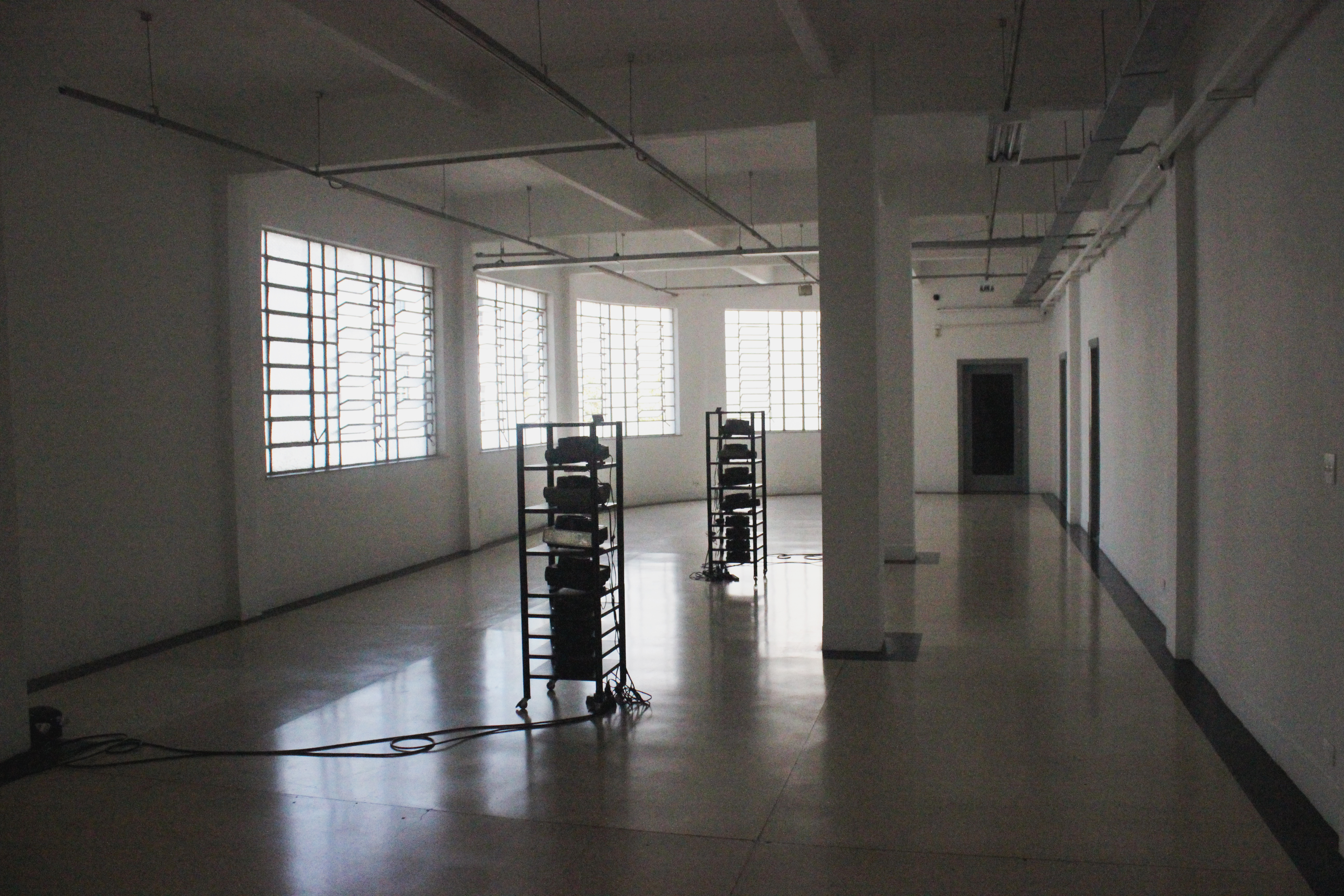 First floor and an exposition